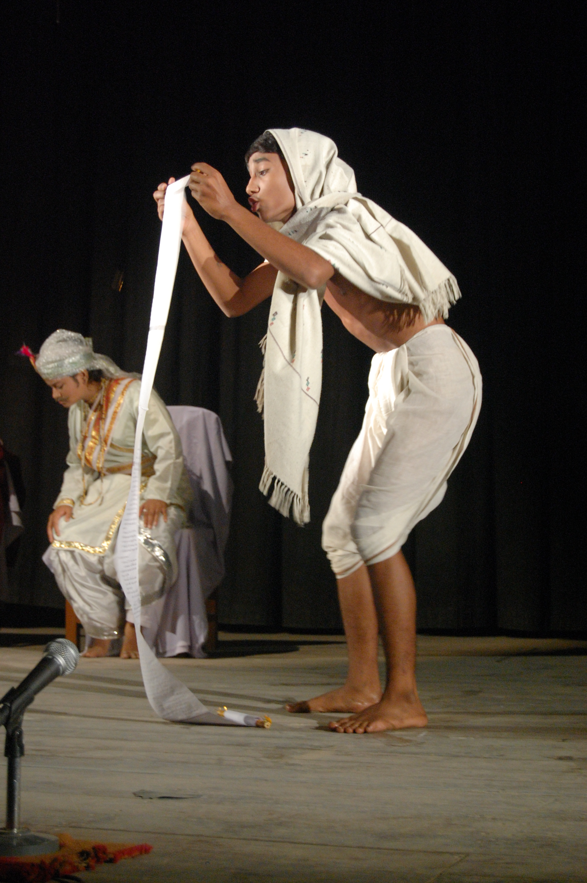 A moment from Shukrachakra's production "Totakahini" at Oikatan, Naihati, on September 17, 2008.